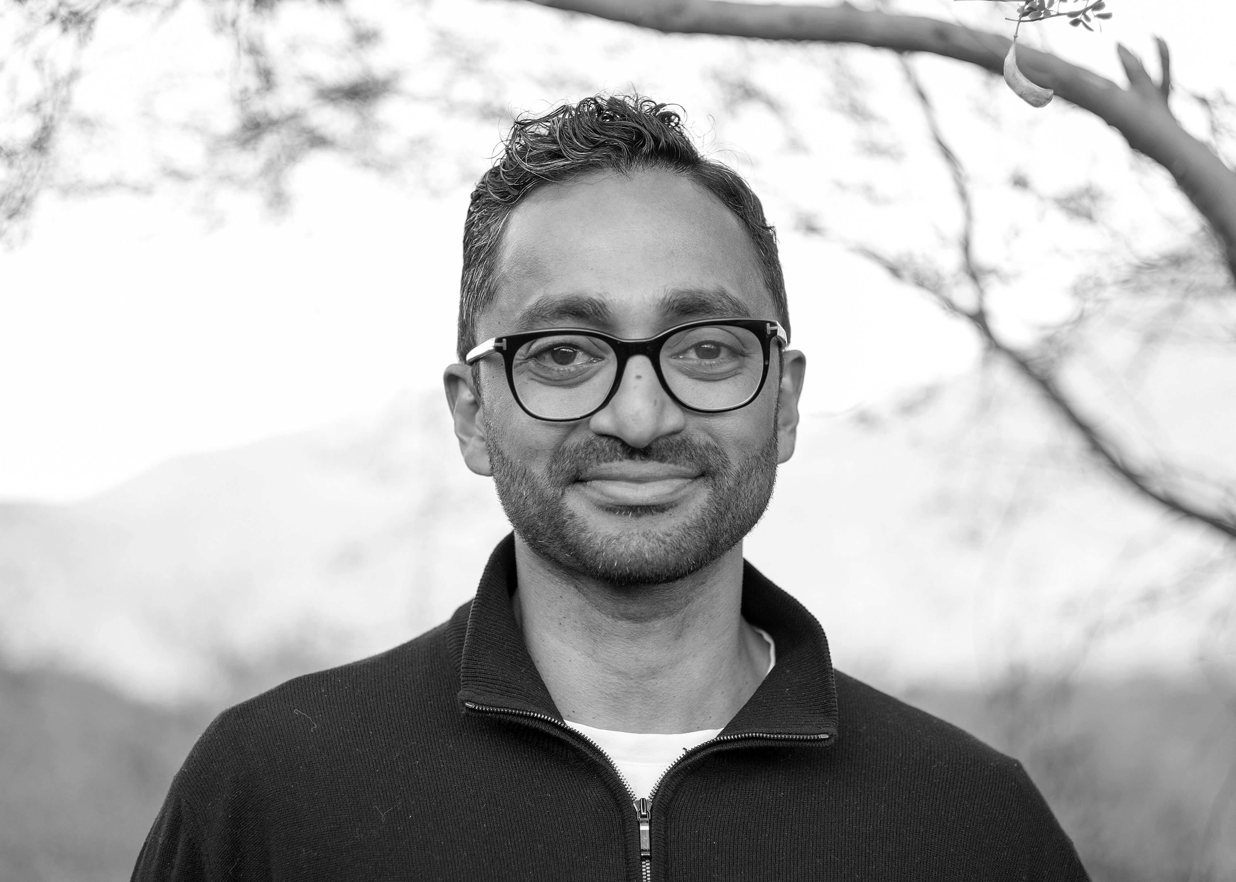 Chamath Palihapitiya 2016 Dialog by Christopher Michel